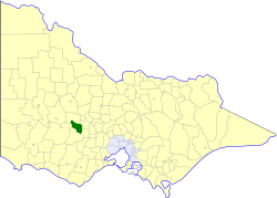 Location of the former Shire of Lexton within Victoria.